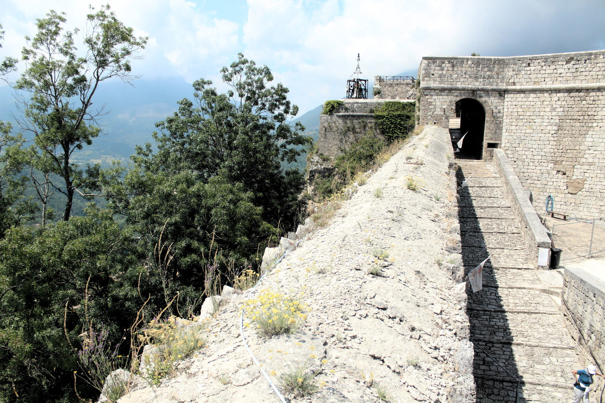 This image has been originally created as the illustration for vulkaanidega Euroopa riik entry in crosswords dictionary . It has been released under CC-BY-3.0 license.